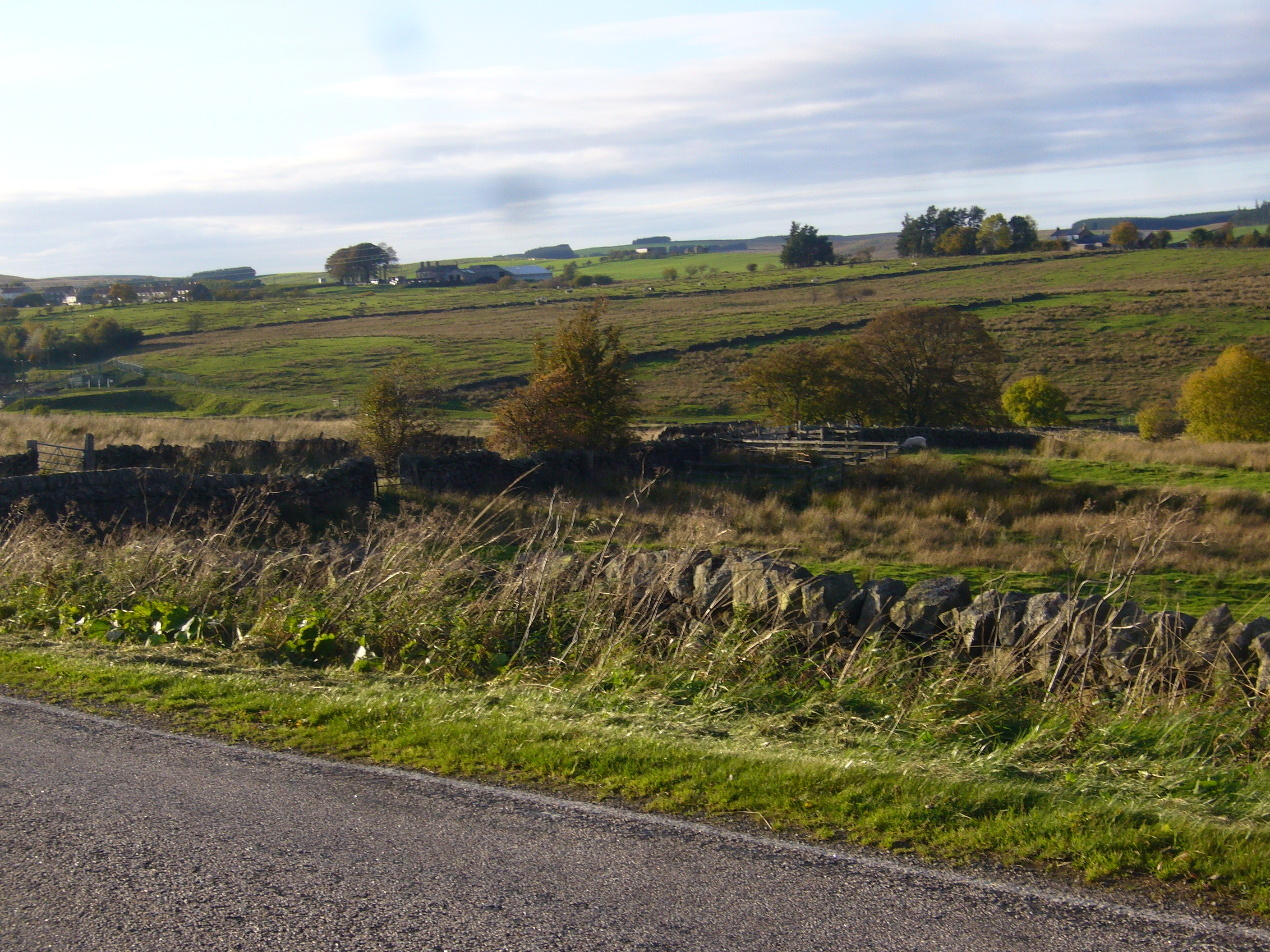 Halton Lea Gate October 2013- land to the east of the village where planned open cast coal mining will take place.